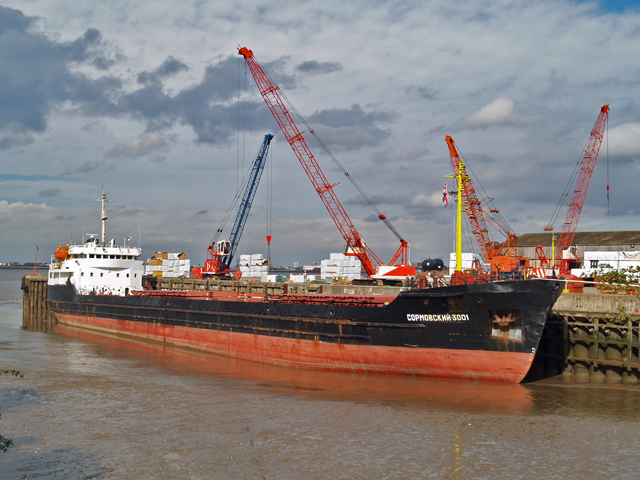 New Holland Dock Photo shows "Sormovskiy-3001" unloading packaged timber.